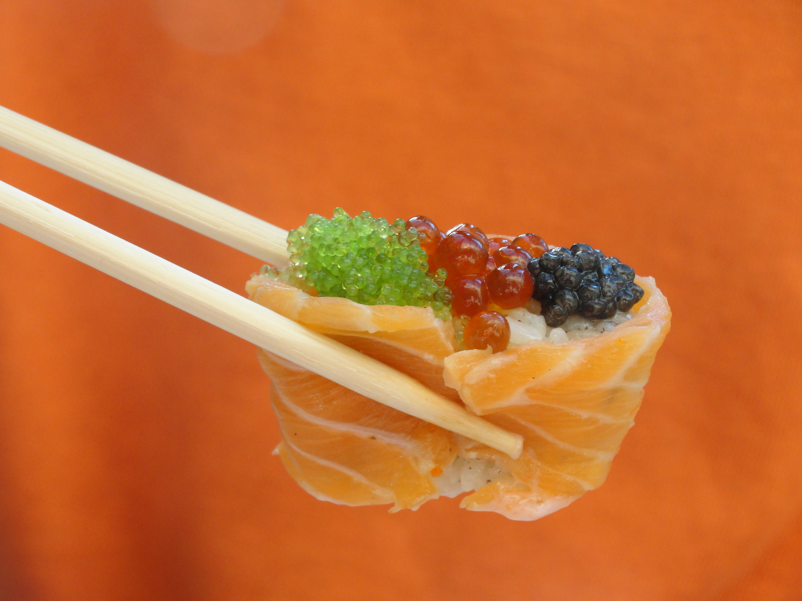 A piece of sushi with three kinds of fish eggs including caviar. Russia, Moscow.